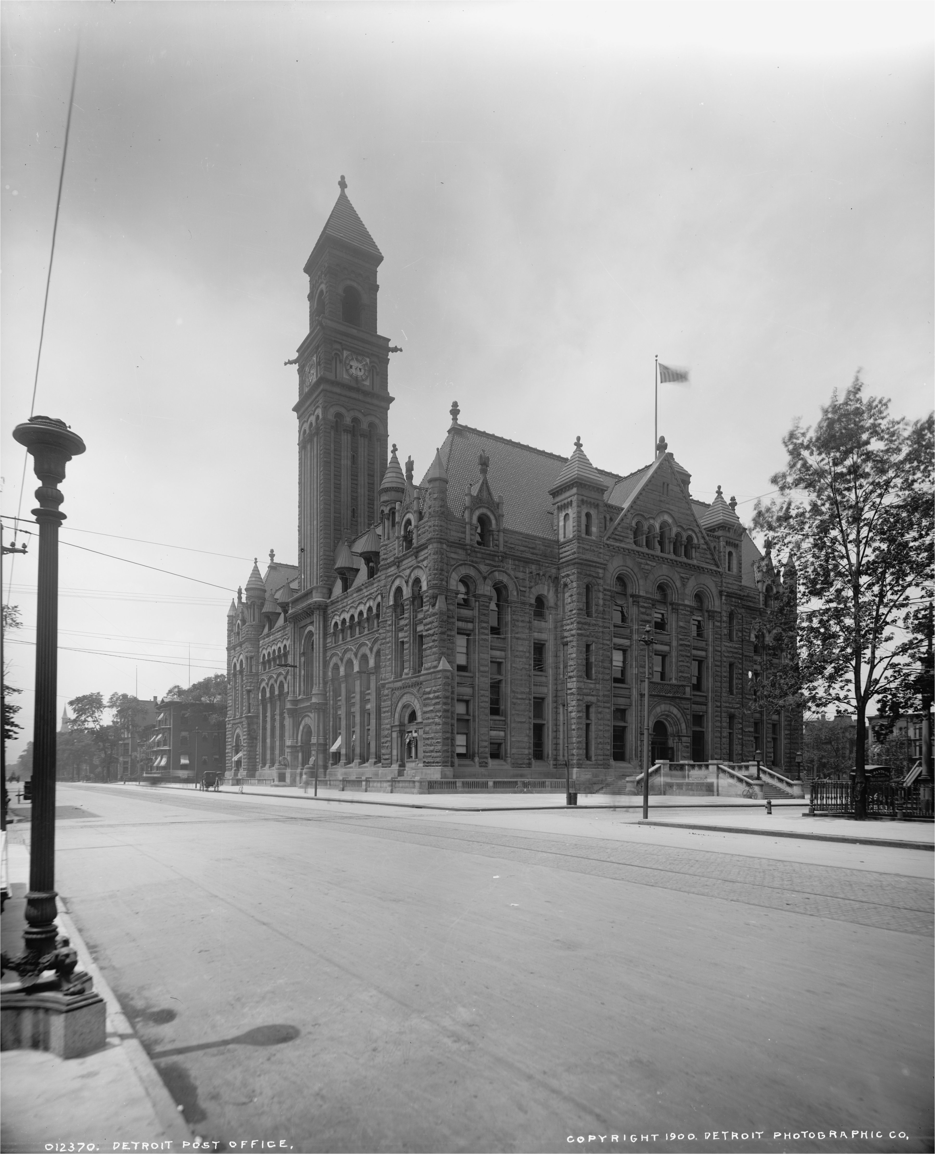 Detroit Post Office, ca 1900. Romanesque revival style, built in 1891.